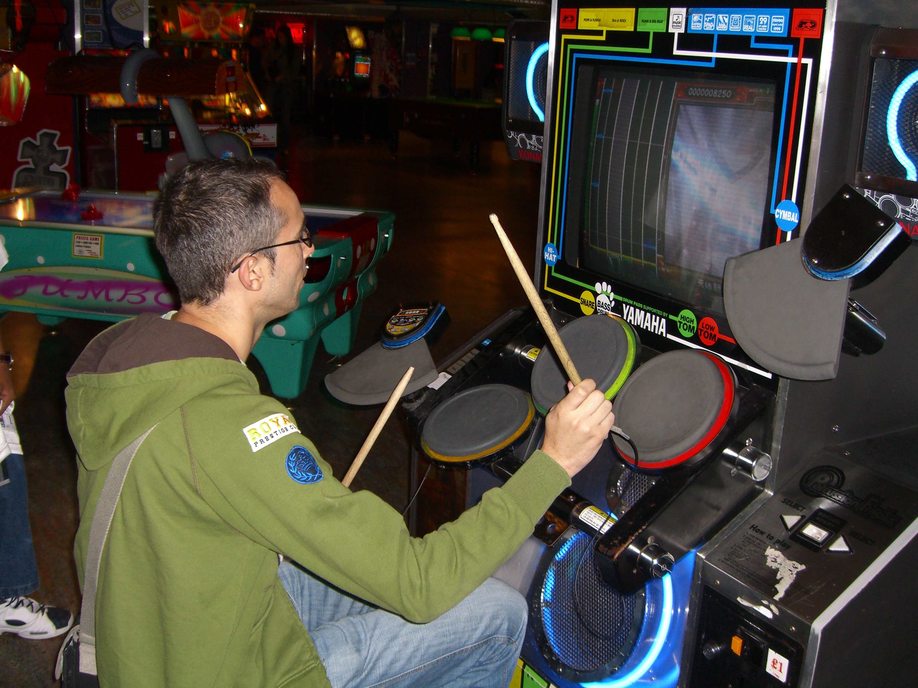 A man playing a set in a Drummania Cabinet.